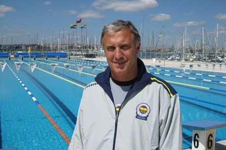 Victor Turchin in swimming pool in Turkey